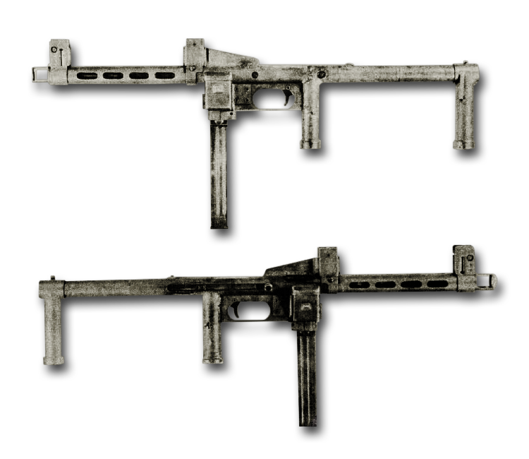 The Erma EMP 44 sub-machine gun